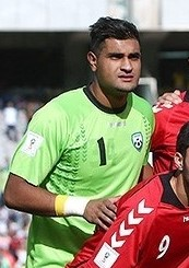 Ovays Azizi, goalkeeper of Afghanistan before match with Japan, 2018 FIFA World Cup qualification, Azadi Stadium, Tehran